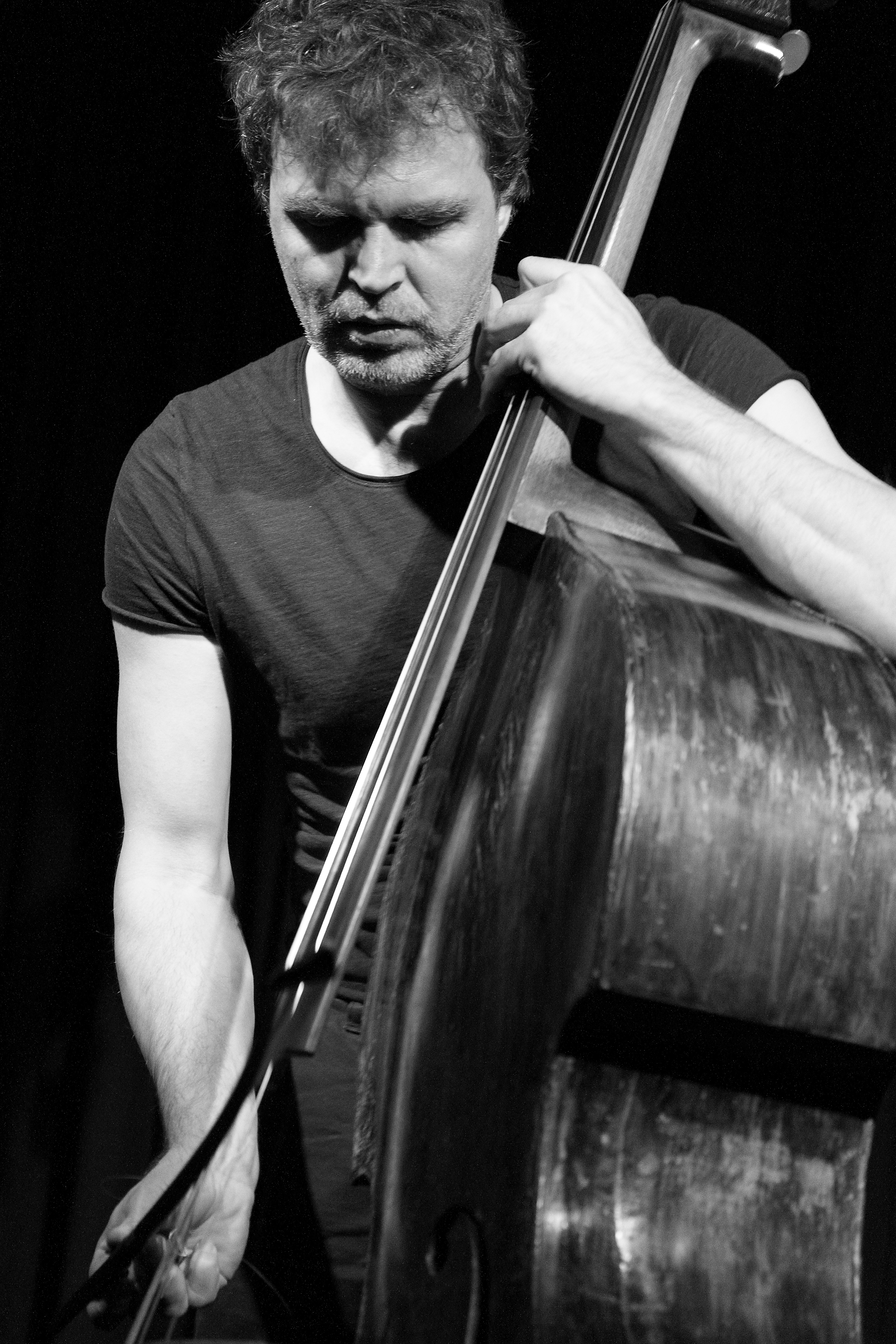 Joëlle Léandre & Sebastian Gramss playing as doublebass-duo in Club W71, 2018.